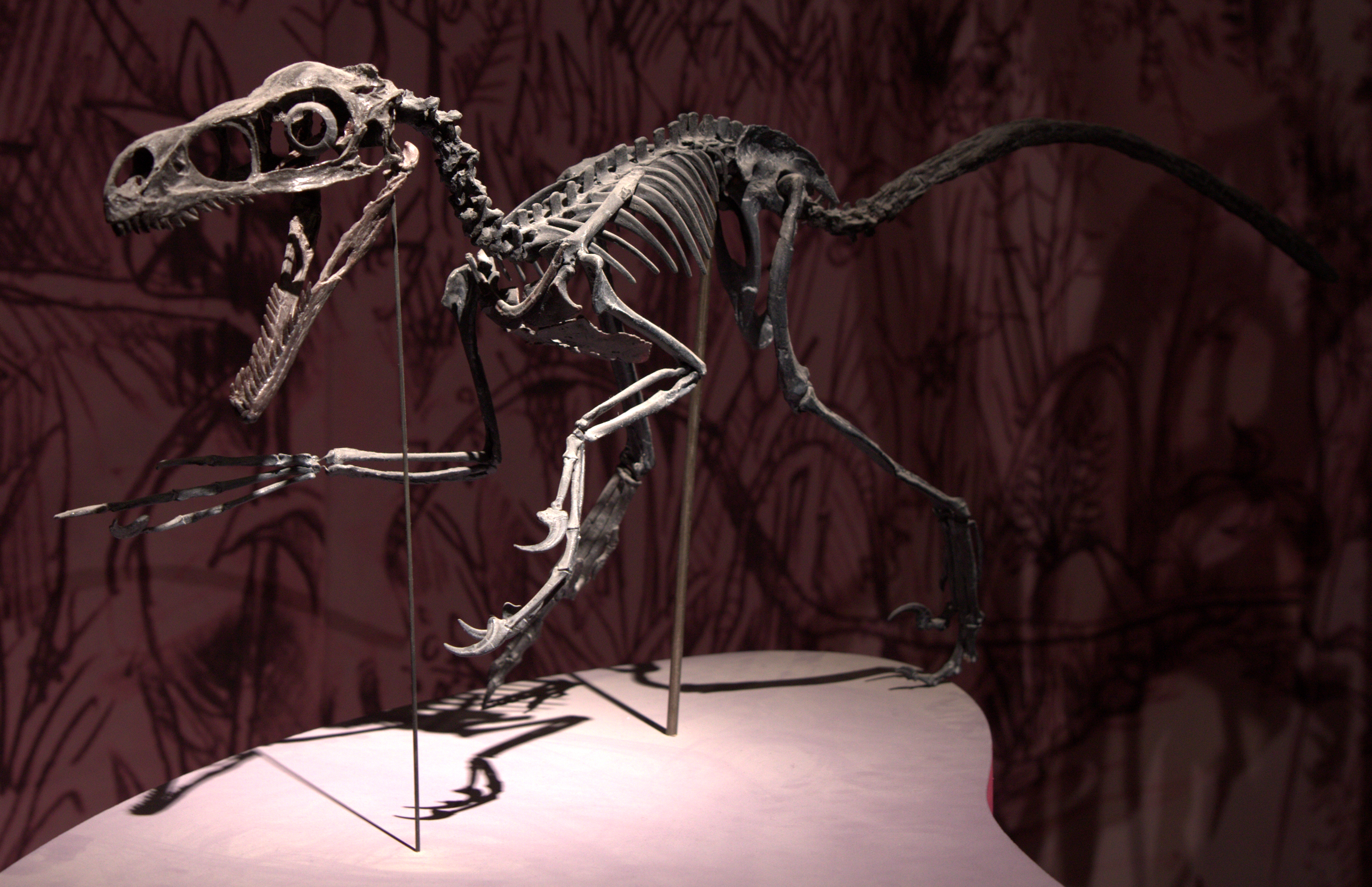 Skeletal mount of a Bambiraptor at the 2010 exhibition "Dans l'ombre des dinosaures" (French for 'In the shadow of the Dinosaurs'), at the National Museum of Natural History of France, in Paris.